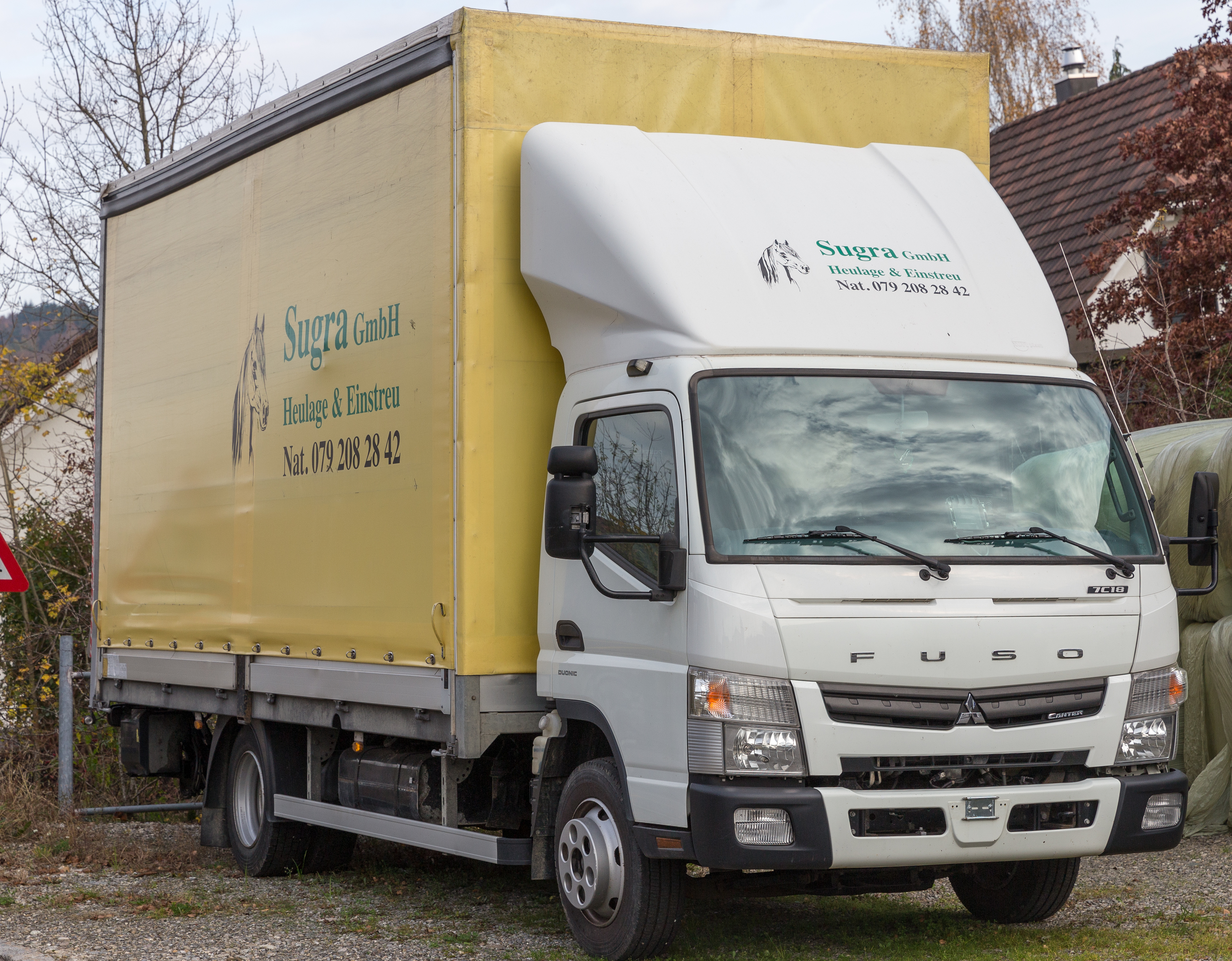 Fuso Canter 7C18 (8th Generation) in Muhen, Switzerland